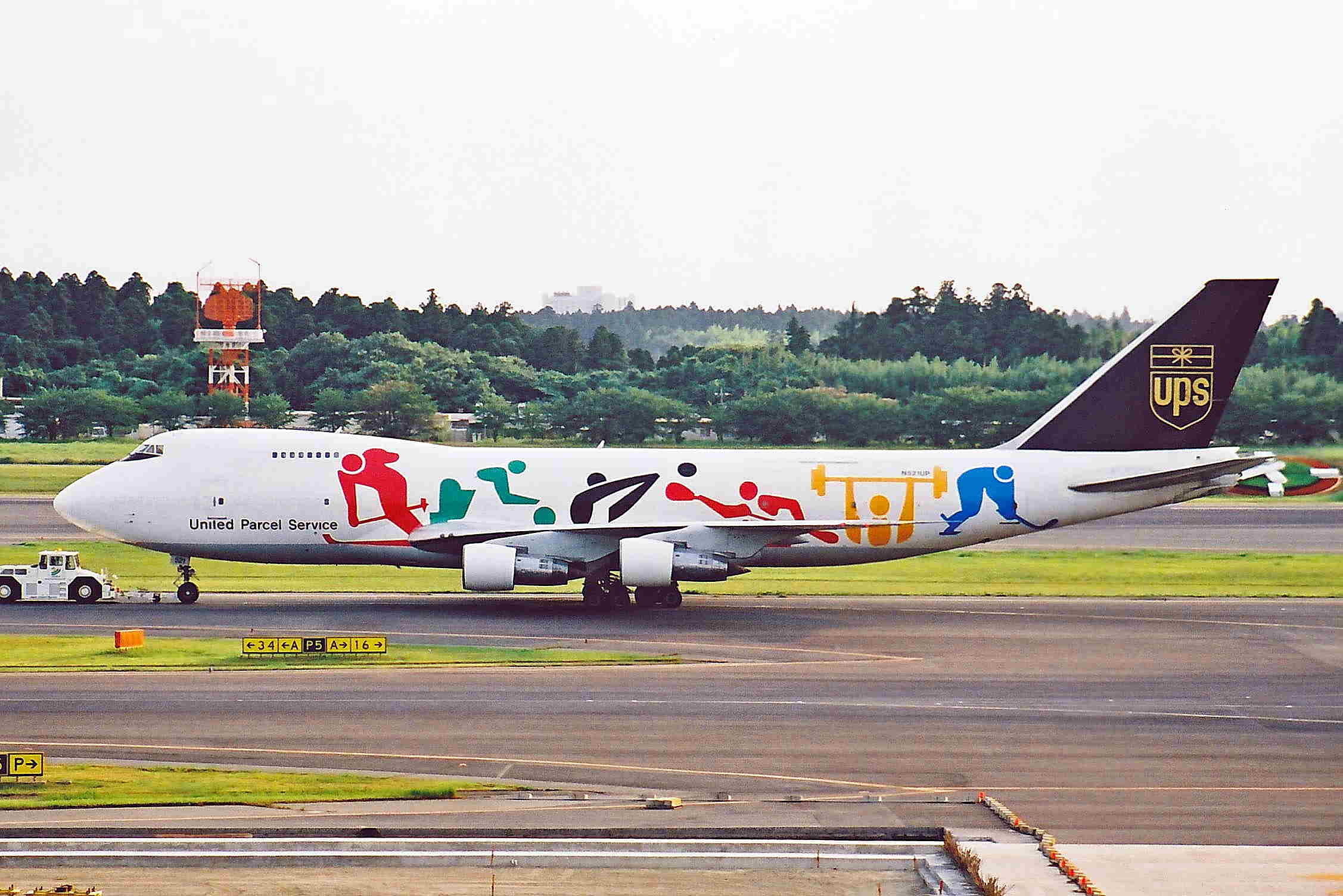 'Sports' special c/scheme